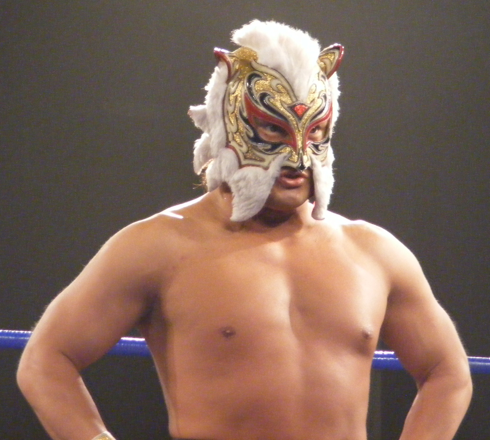 Professional wrestler Super Shisa at Chikara King of Trios 2011.